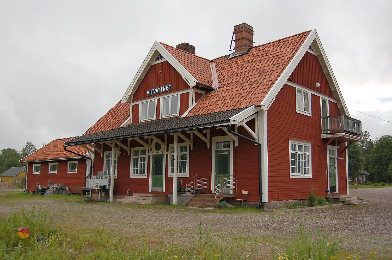 Vitvattnet railway station on Haparandabanan (Boden—Haparanda) in Sweden.